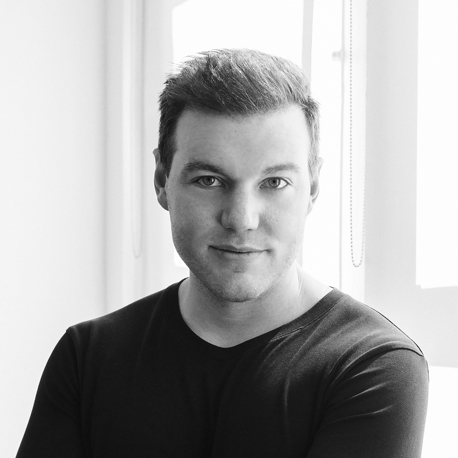 A 2016 photo of American designer and typographer Mackey Saturday.